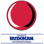 The logo for the "Karate Budokan International" karate club/organisation.